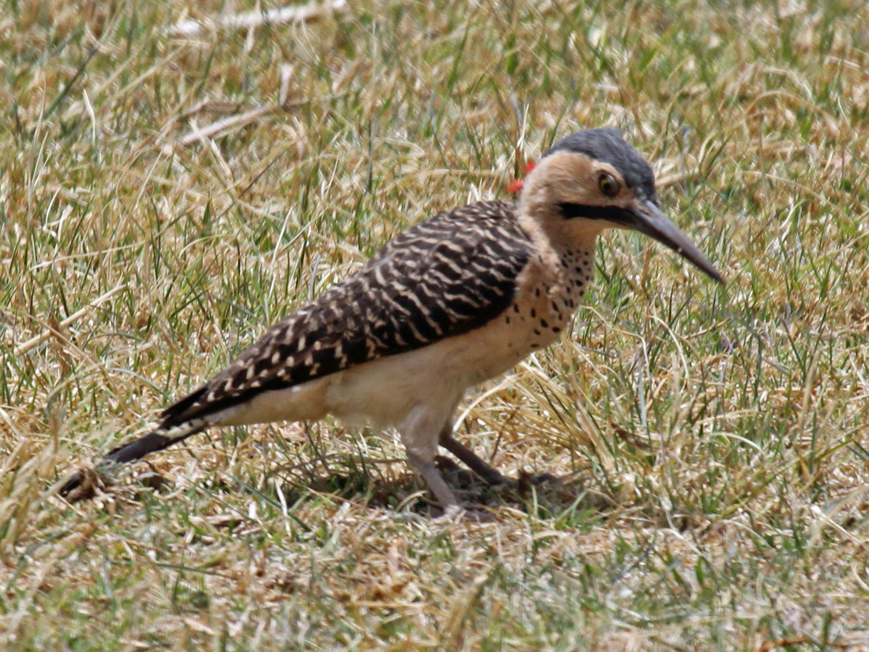 Andean Flicker (Colaptes rupicola) - Peruvian Plateau